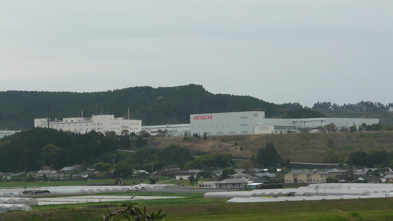 HITACHI PLASMA DISPLAY LIMITED - Headquarters (Kunitomi Town, Miyazaki, Japan)